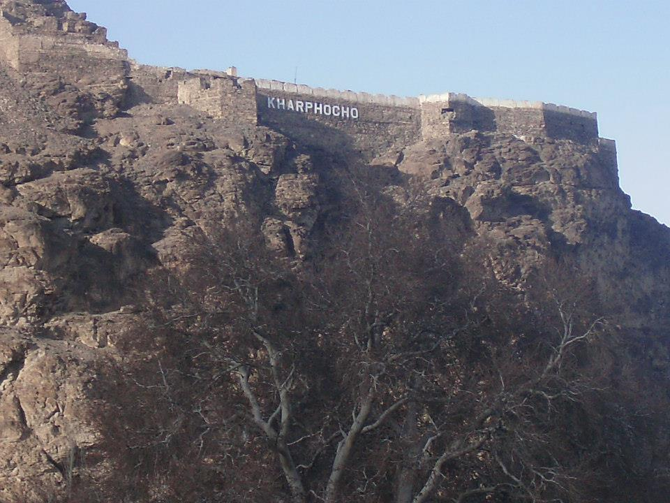 Skardu Fort This is a photo of a monument in Pakistan identified as the GB-24